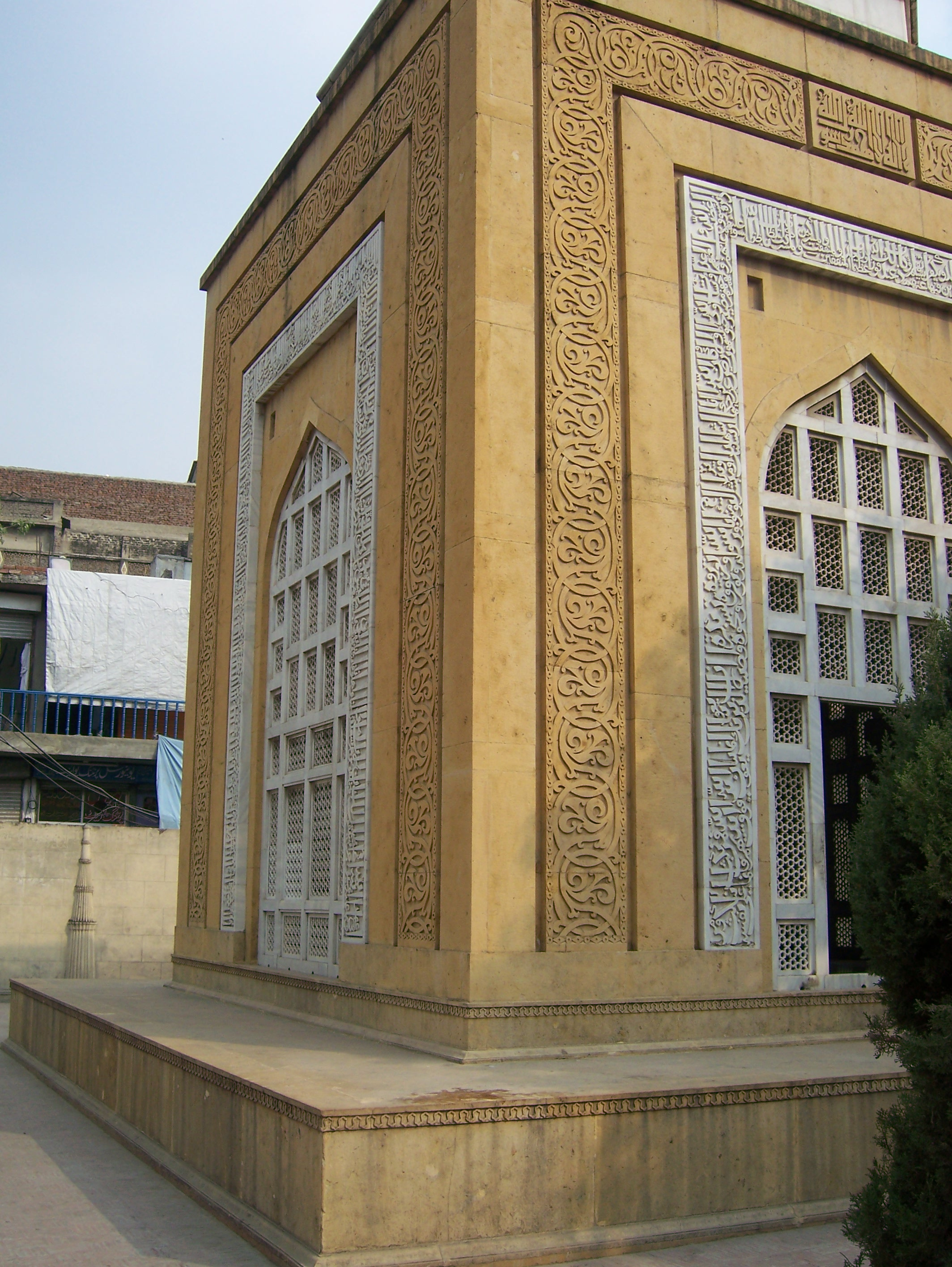 The mausoleum of Qutub ud Din Aibak in Lahore, Pakistan.